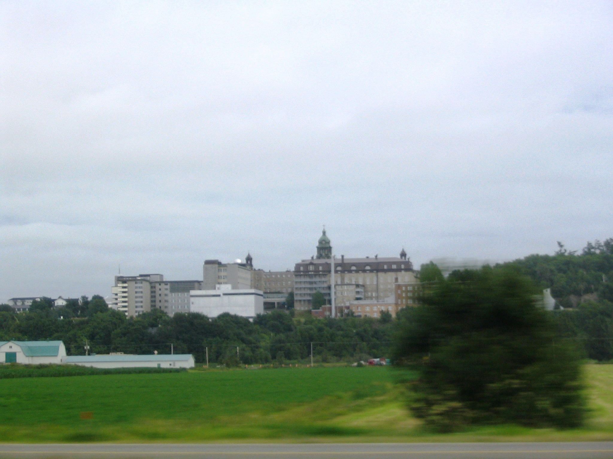 Cégep de La Pocatière, in Canada, as seen from the highway.